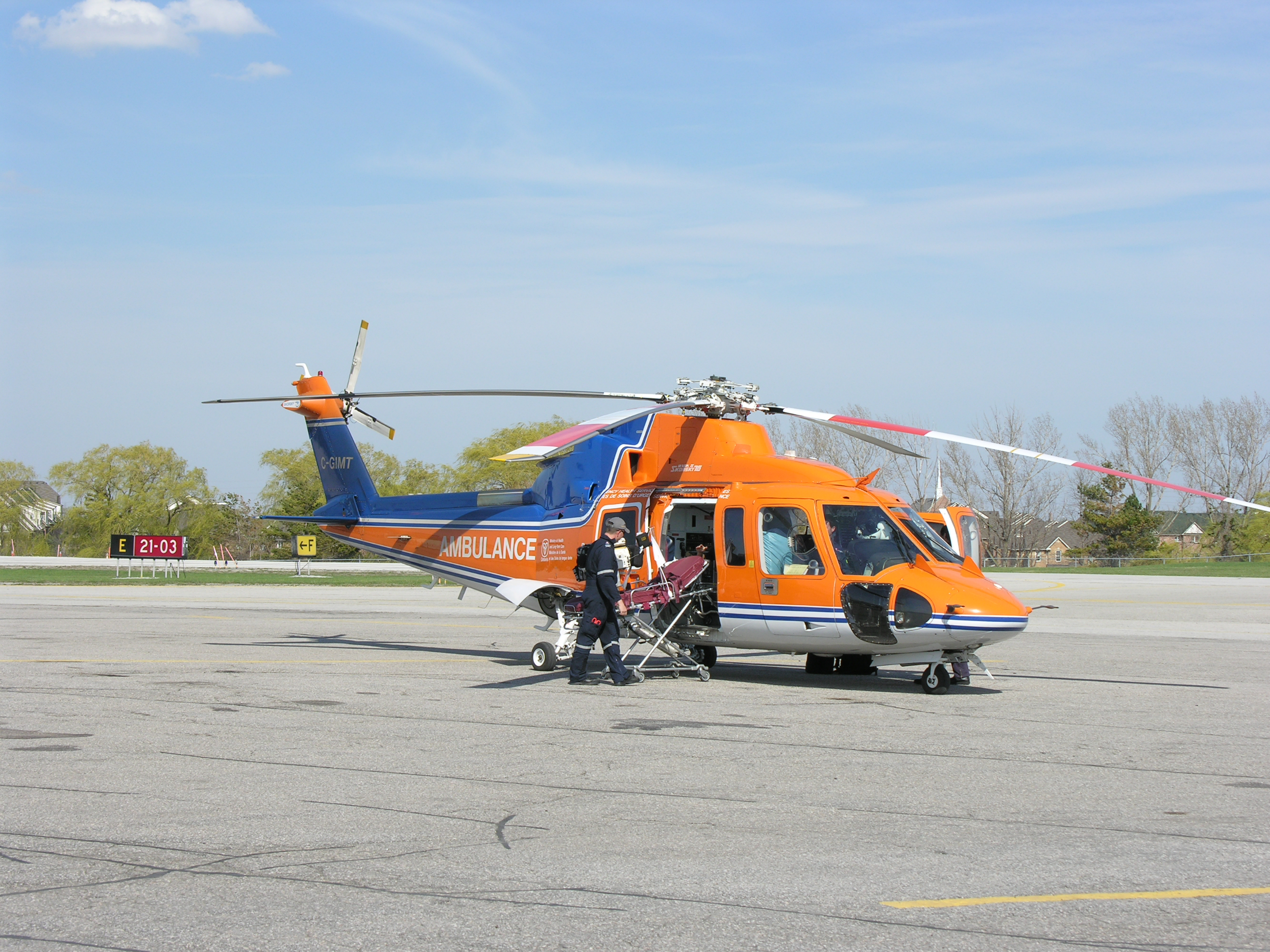 Ornge Sikorsky S-76A C-GIMT (in old livery) preparing to receive a patient on the main apron at Toronto/Buttonville Municipal Airport.